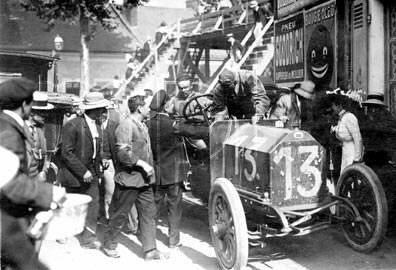 Picture shows Victor Hémery winning at the French GP in a Fiat S61 at Sarthe ib July 23, en:1911. His starting number was #13, and the 12 laps were over in 7h06m30s (52.5 mph).[1]